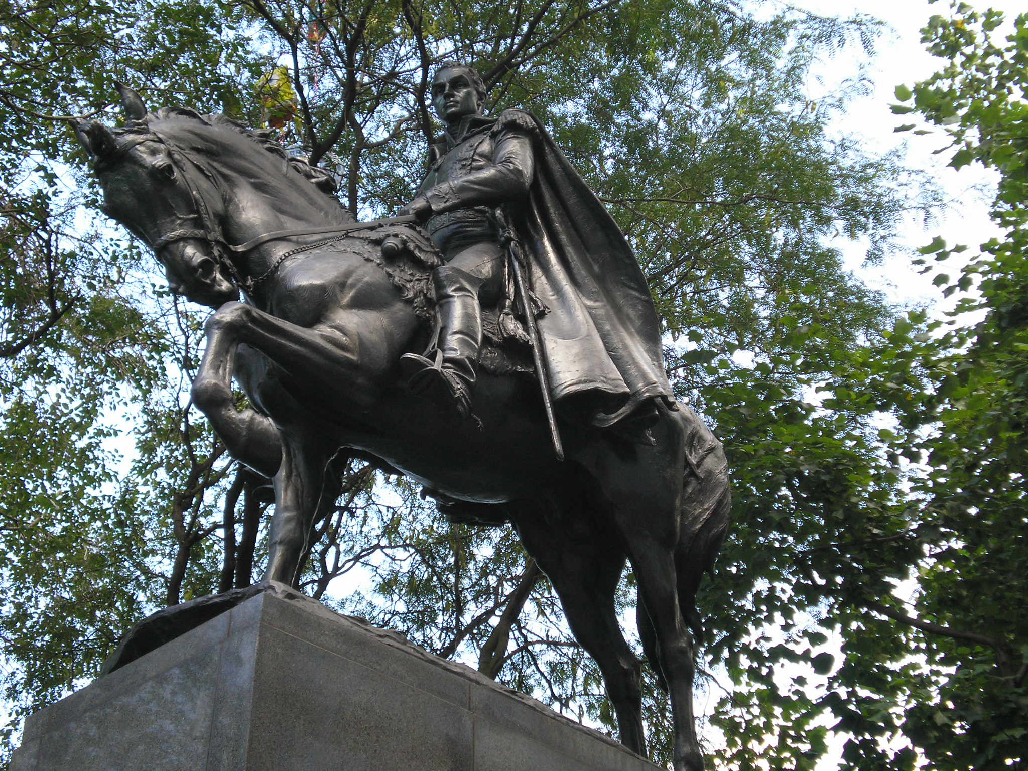 Monumento to Simon Bolivar in Central Park, New York City